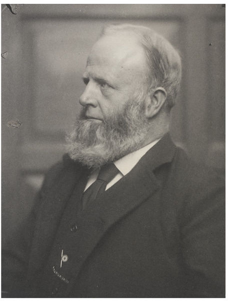 Hugh Colin Smith, photographed by Frederick Hollyer, c 1900